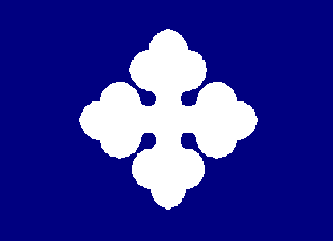 XVIII Corps, Army of the James, 2nd Division Badge